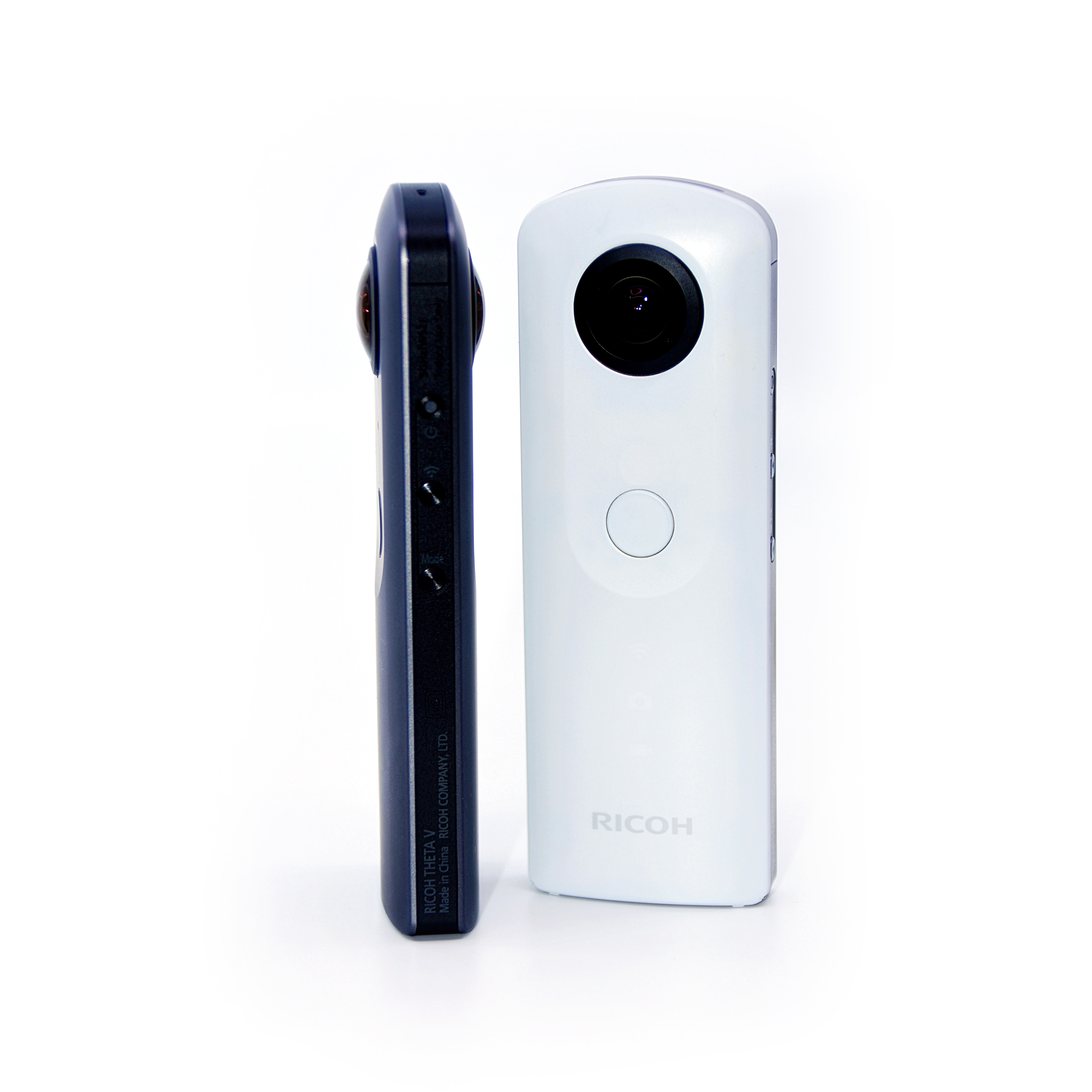 The omnidirectional cameras Ricoh Theta V (left) and Ricoh Theta SC (right). Omnidirectional cameras can shoot 360° x 180° panoramic photos or videos.